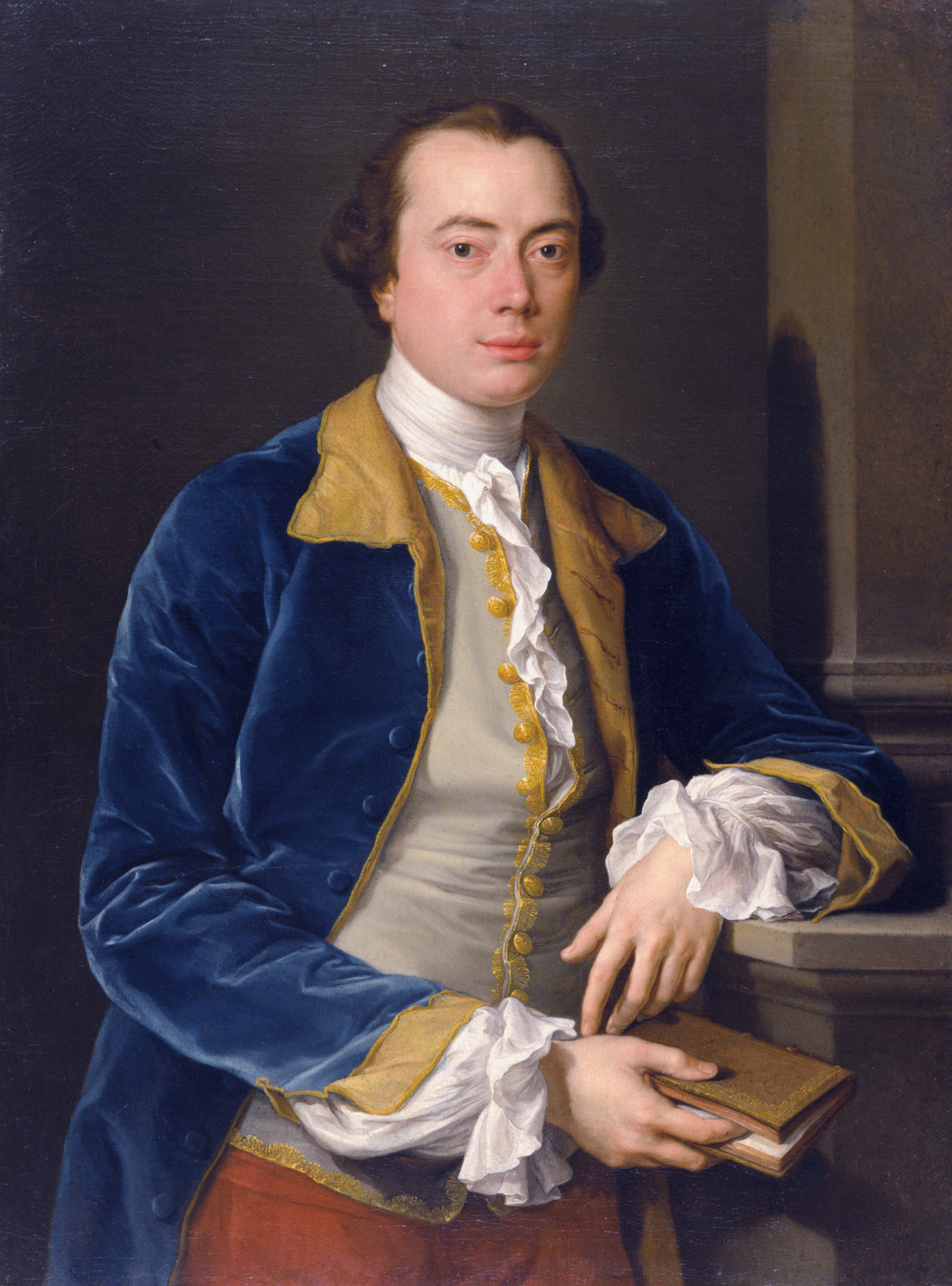 Joseph Henry of Straffan oil on canvas 98 x 72.5 cm